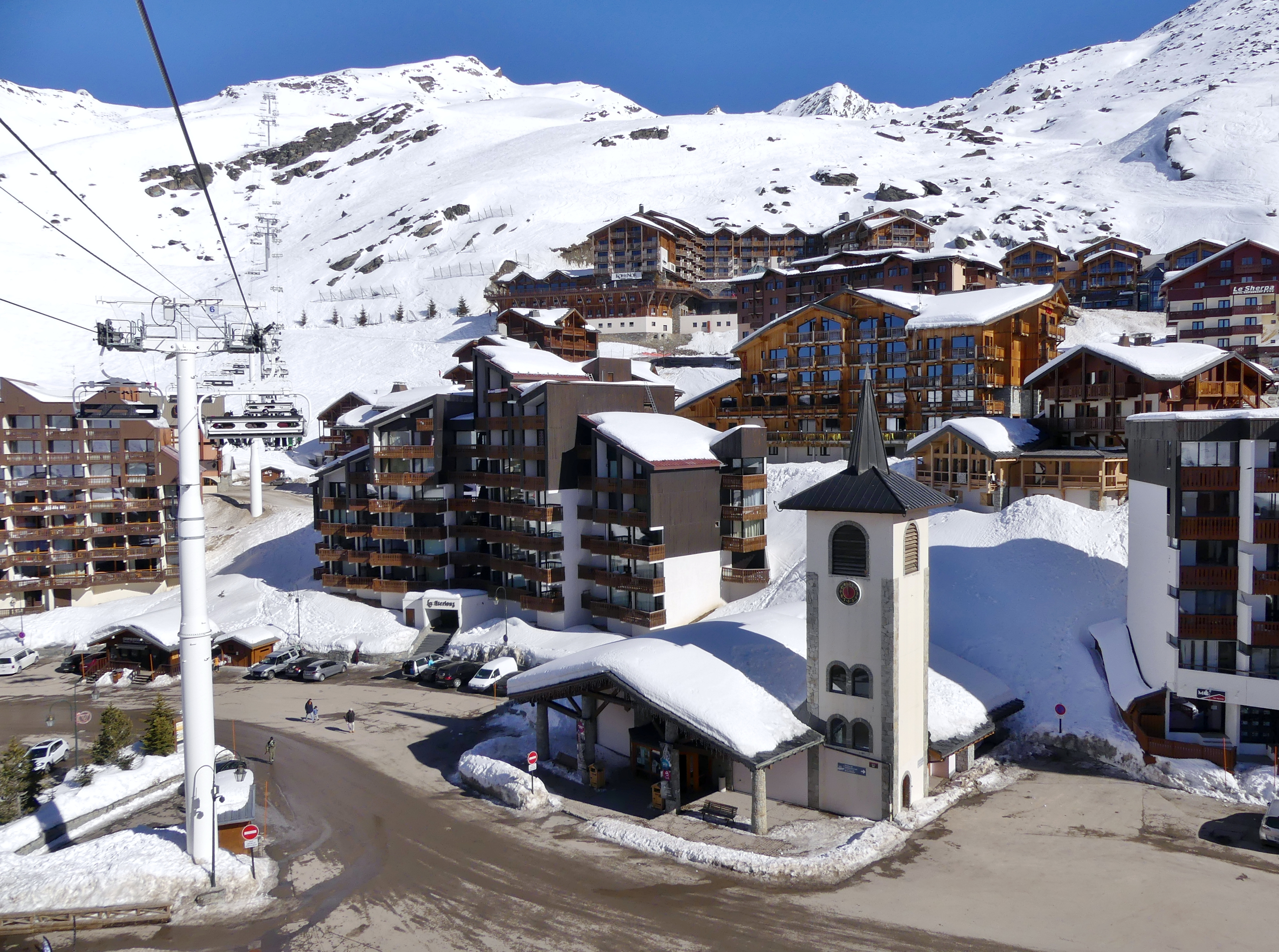 Sight in winter, from a chairlift, of Val Thorens resort and chapel, in Savoie, France.